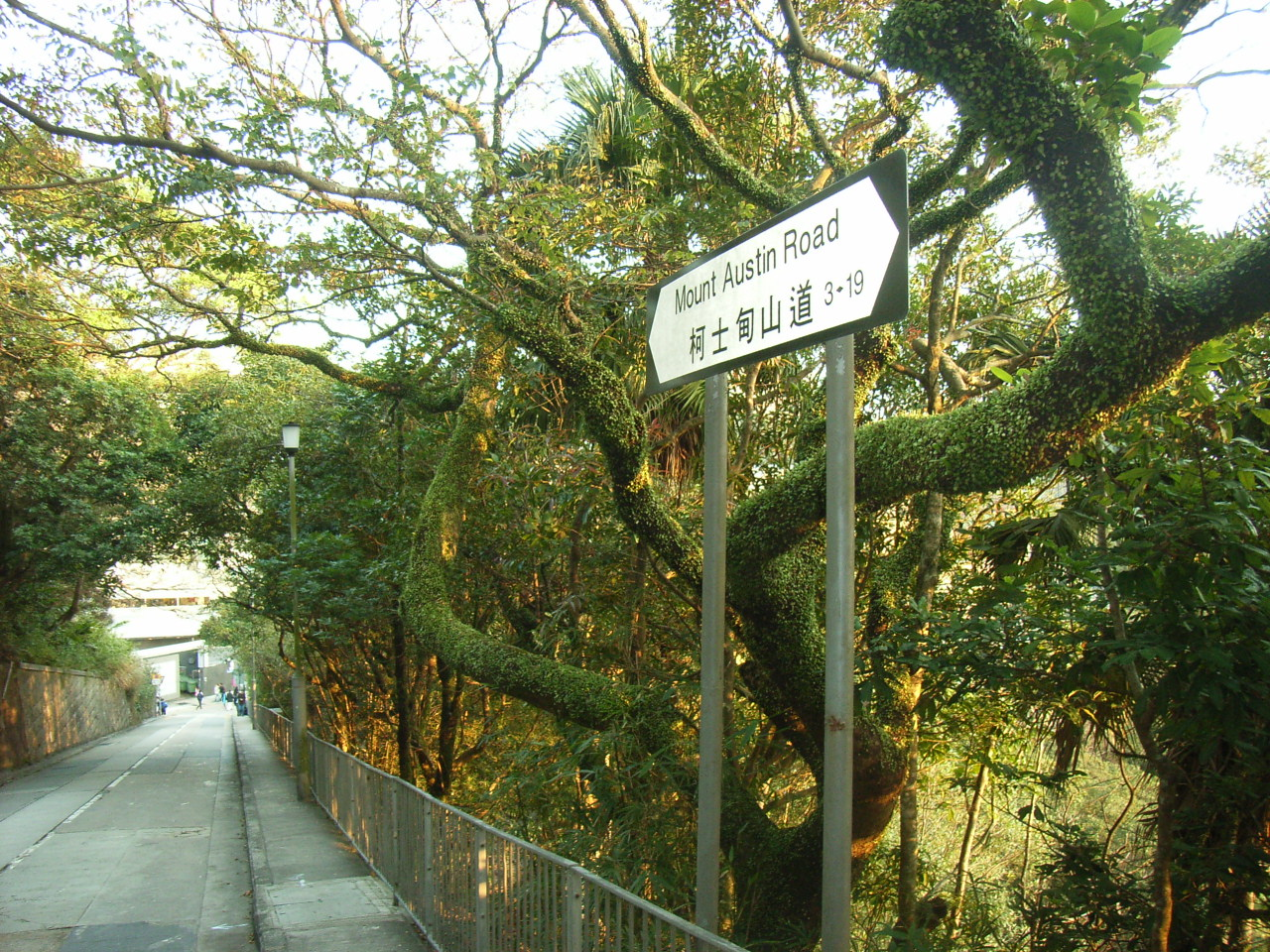 Mount Austin Road, Victoria Peak, Hong Kong Photographer and author is ParkerStarS.